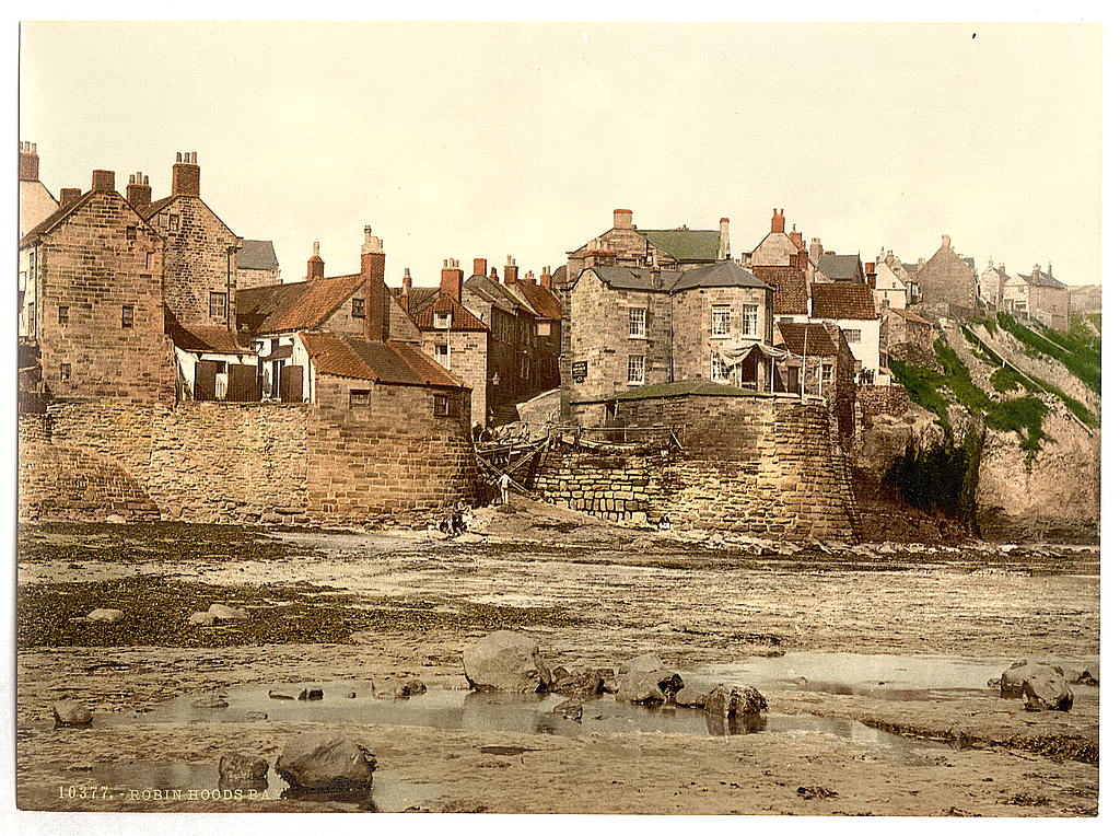 [Whitby, Robin Hood's Bay, Yorkshire, England] [between ca. 1890 and ca. 1900]. 1 photomechanical print : photochrom, color. Notes: Title from the Detroit Publishing Co., Catalogue J--foreign section, Detroit, Mich. : Detroit Publishing Company, 1905. Print no. "10377". Forms part of: Views of the British Isles, in the Photochrom print collection. Subjects: England--Whitby. Format: Photochrom prints--Color--1890-1900. Repository: Library of Congress, Prints and Photographs Division, Washington, D.C. 20540 USA, Part Of: Views of the British Isles (DLC) 2002696059 More information about the Photochrom Print Collection is available at Higher resolution image is available (Persistent URL): Call Number: LOT 13415, no. 1091 [item]